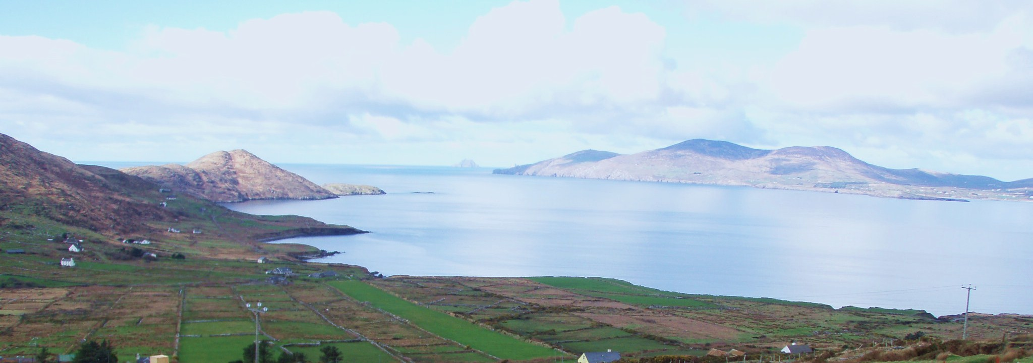 Capes stretching far into the Atlantic encircle Ballinskelligs Bay from Hog's Head to Bolus Head. Beyond Bolus are the Skelligs Rocks.